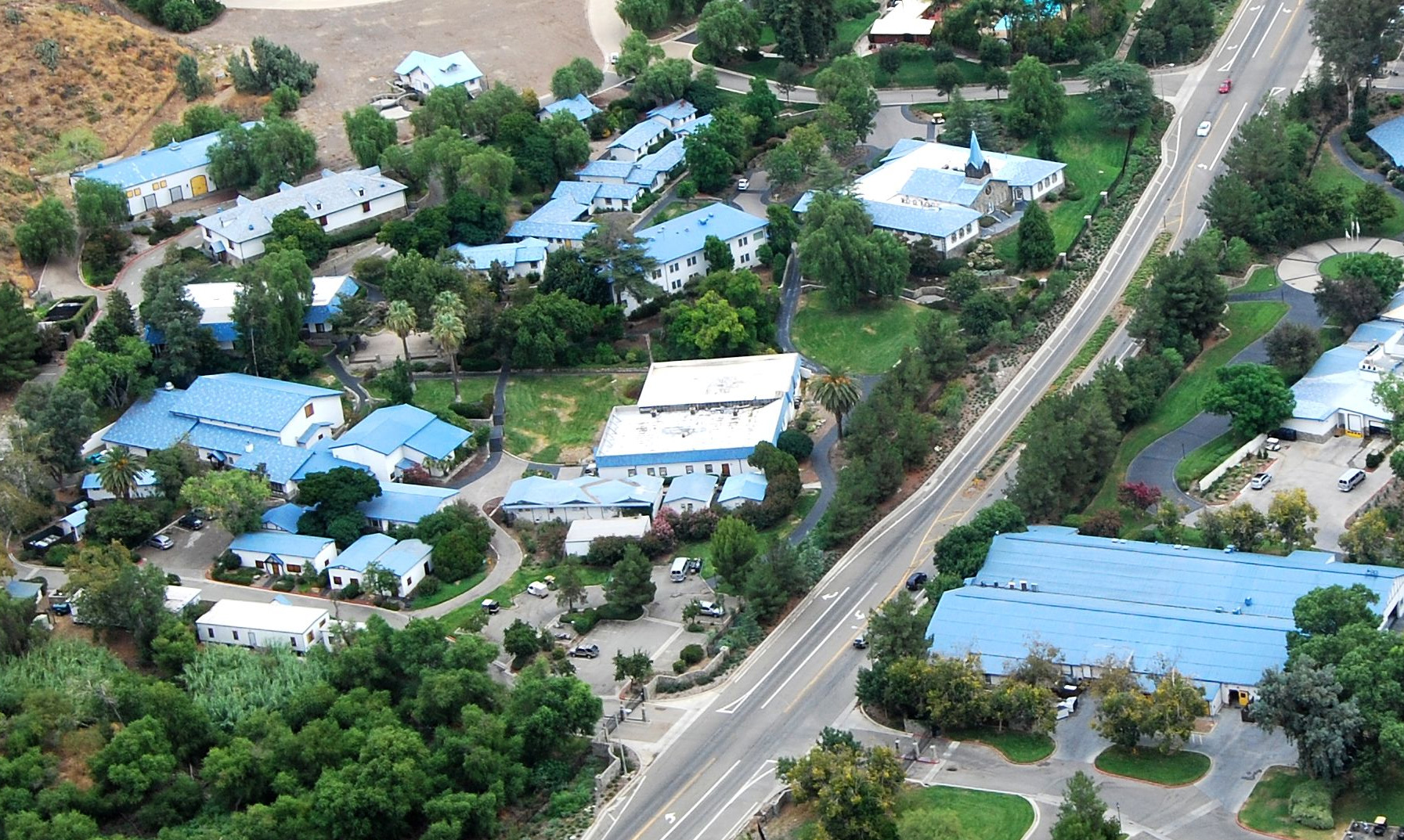 The Hole at Gold Base, Gilman Hot Springs, California